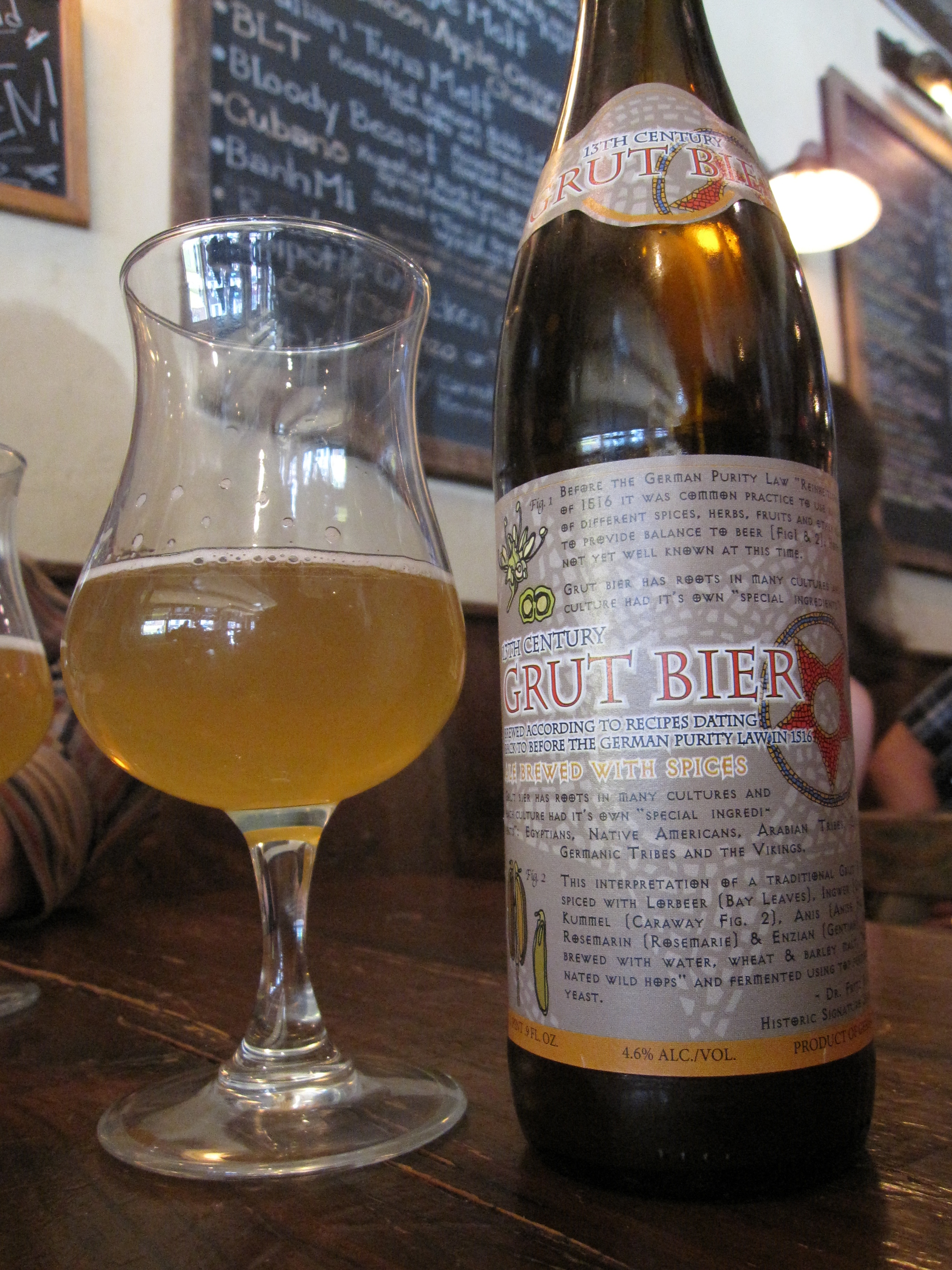 A bottle of 13th Century Grut Bier at the Blind Tiger in New York City. This beer was was brewed by Dr. Fritz Briem at Bayerische Staatsbrauerei Weihenstephan in Bavaria, Germany, based on a 13th century recipe. The name, gruit, comes from the old-fashioned herb mixture used for bittering and flavoring beer, in use before the introduction of hops. The Grut Bier poured a hazy yellow color with a small white head. Complex aroma of herbs and spices. Rosemary! Light mouthfeel but with a fruity freshness. Crisp, spicy herbal flavors, almost like a rich herb tea. At 4.6% abv it was surprisingly complex, and dangeroulsy drinkable. An amazing brew!